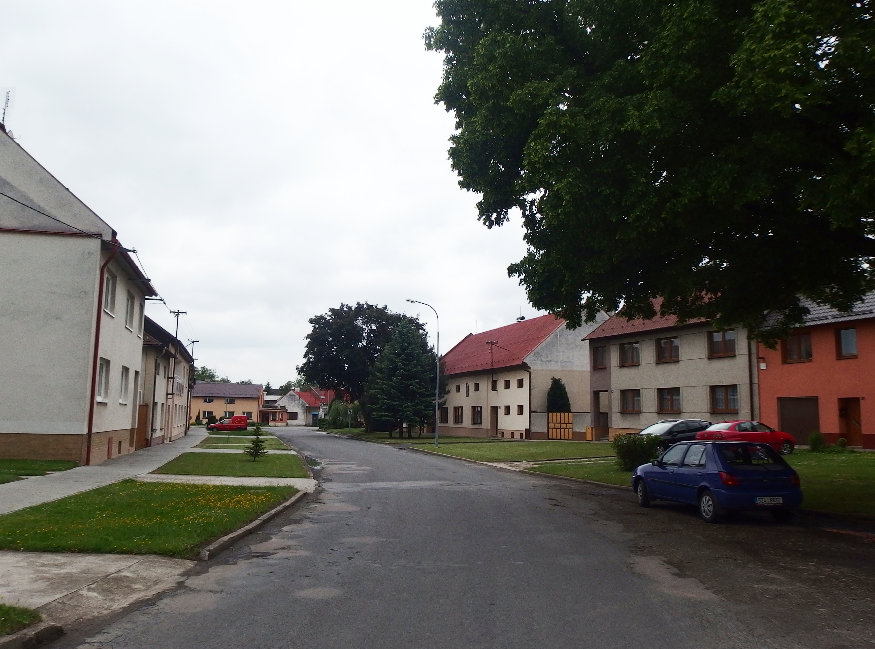 Ludslavice, Kroměříž District, Czech Republic.